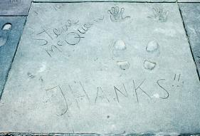 Steve McQueen's footprints, Hollywood, 2001, by Rick Dikeman